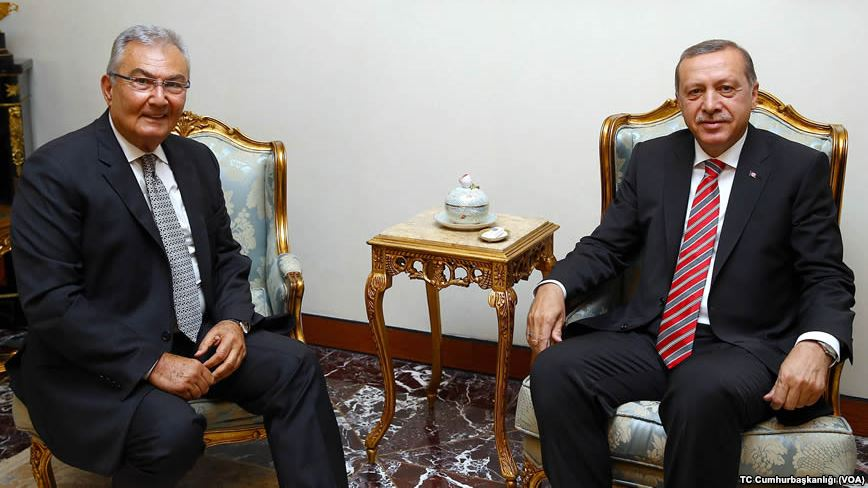 Deniz Baykal & Recep Tayyip Erdoğan meeting after 2015 Turkish general elections